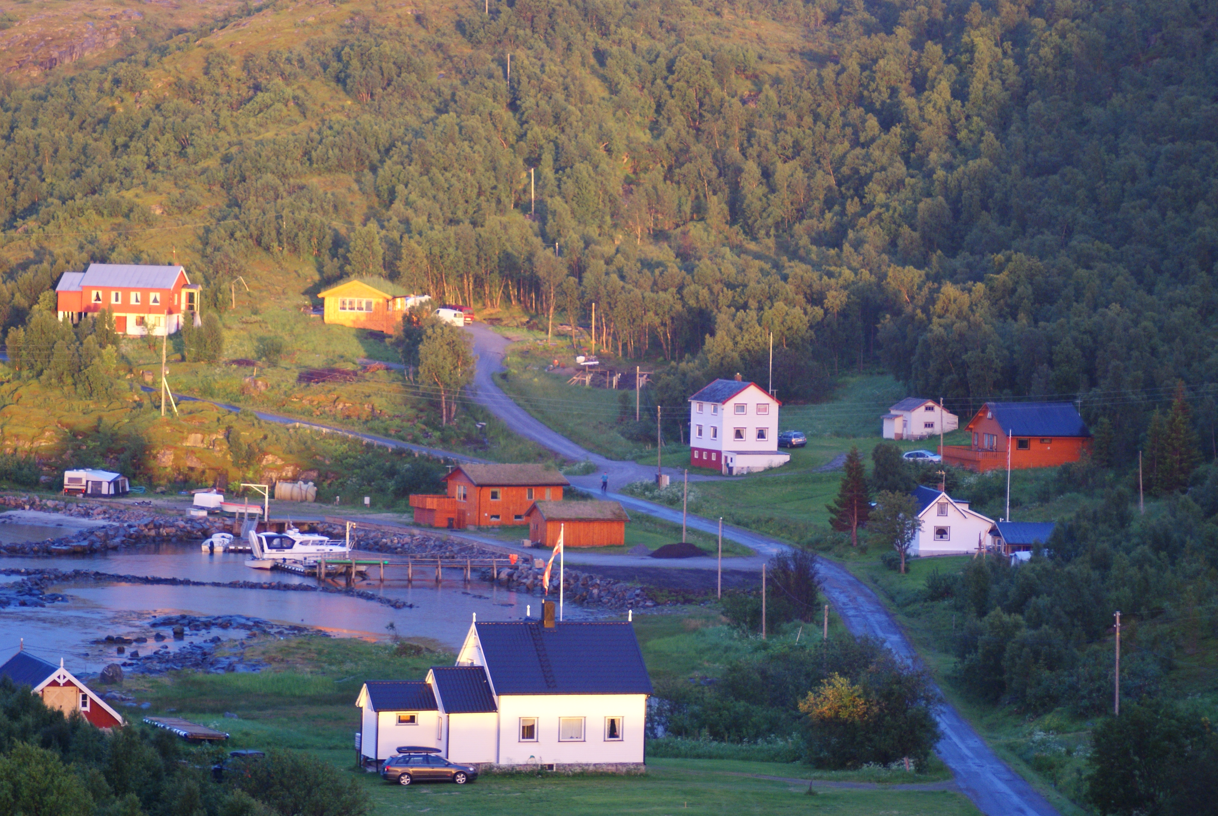 Overview picture of Laukvik Senja